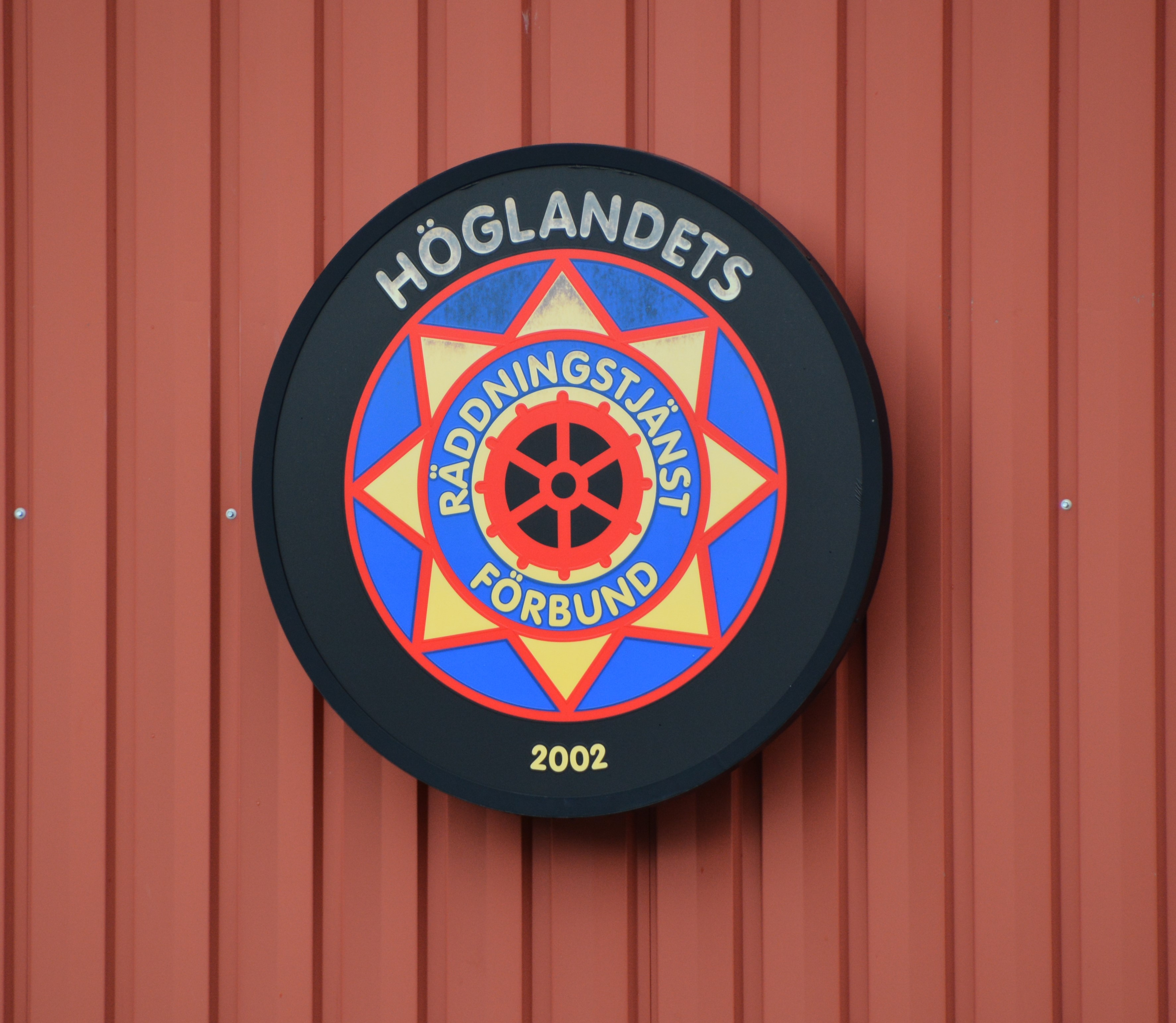 Höglandets räddningsförbund. Skylt Kvillsfors räddningsstation